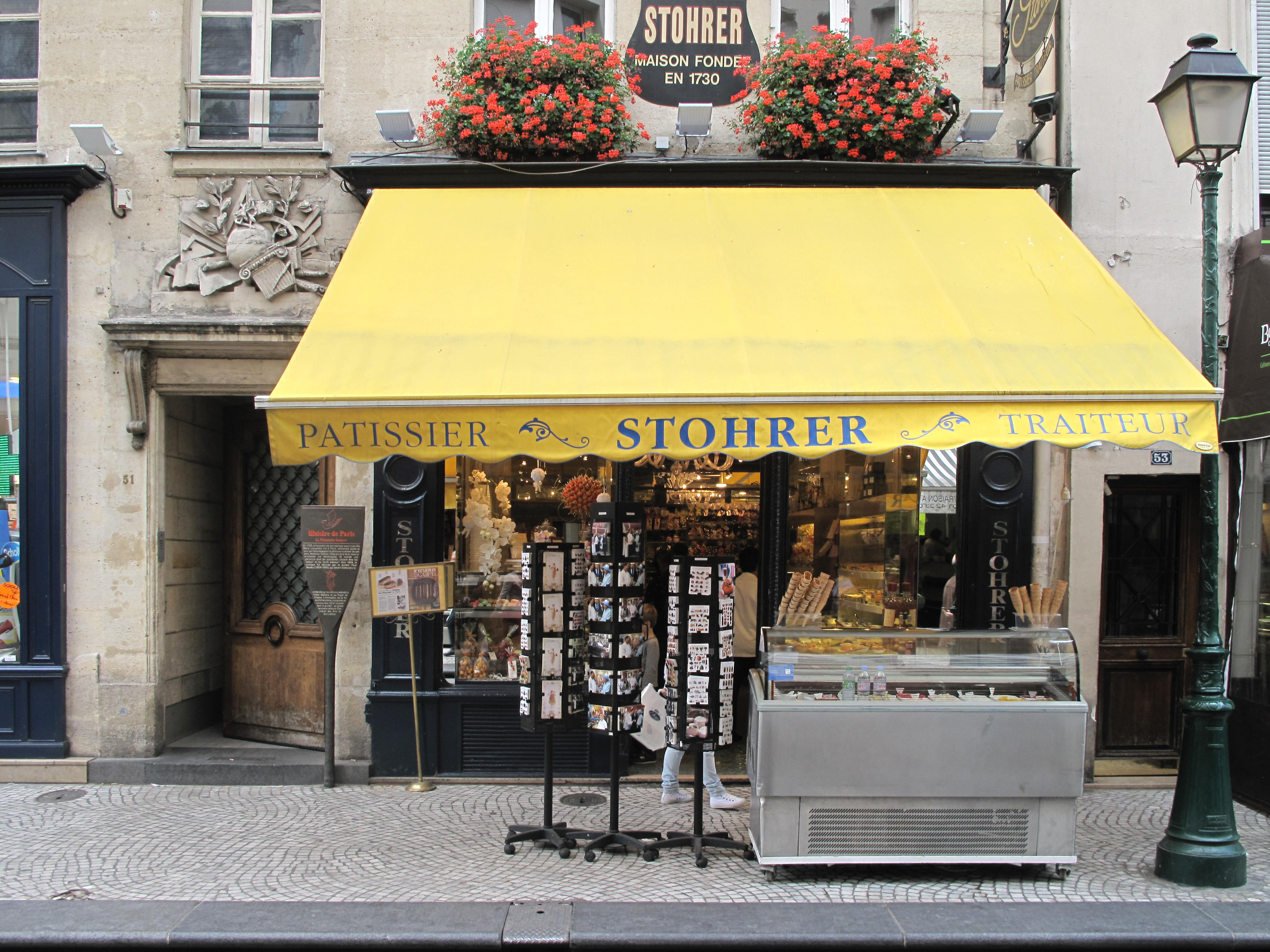 Bakery Stohrer, 51 rue Montorgueil, Paris 2nd arrond. On the left of the shop window, we can see an information panel named "Starck shovel". These panel are recent and no free of rights (no Freedom of Panorama in France). The may not be the main object of a photo.